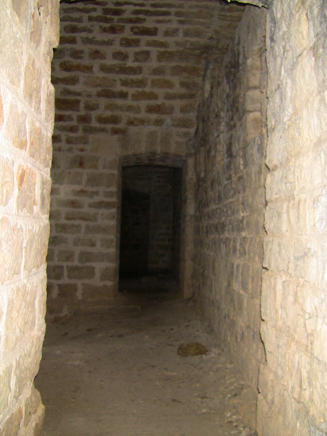 An underground room, in the Fort of Planoise, located in Besançon (France)